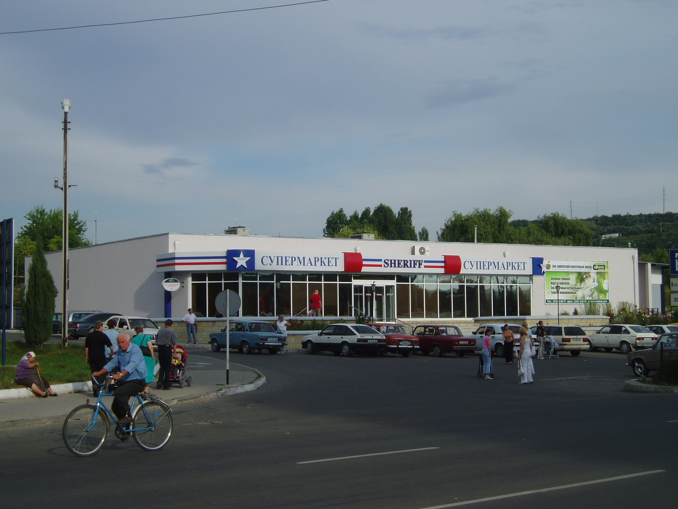 A Shopping mall in Ribnita.